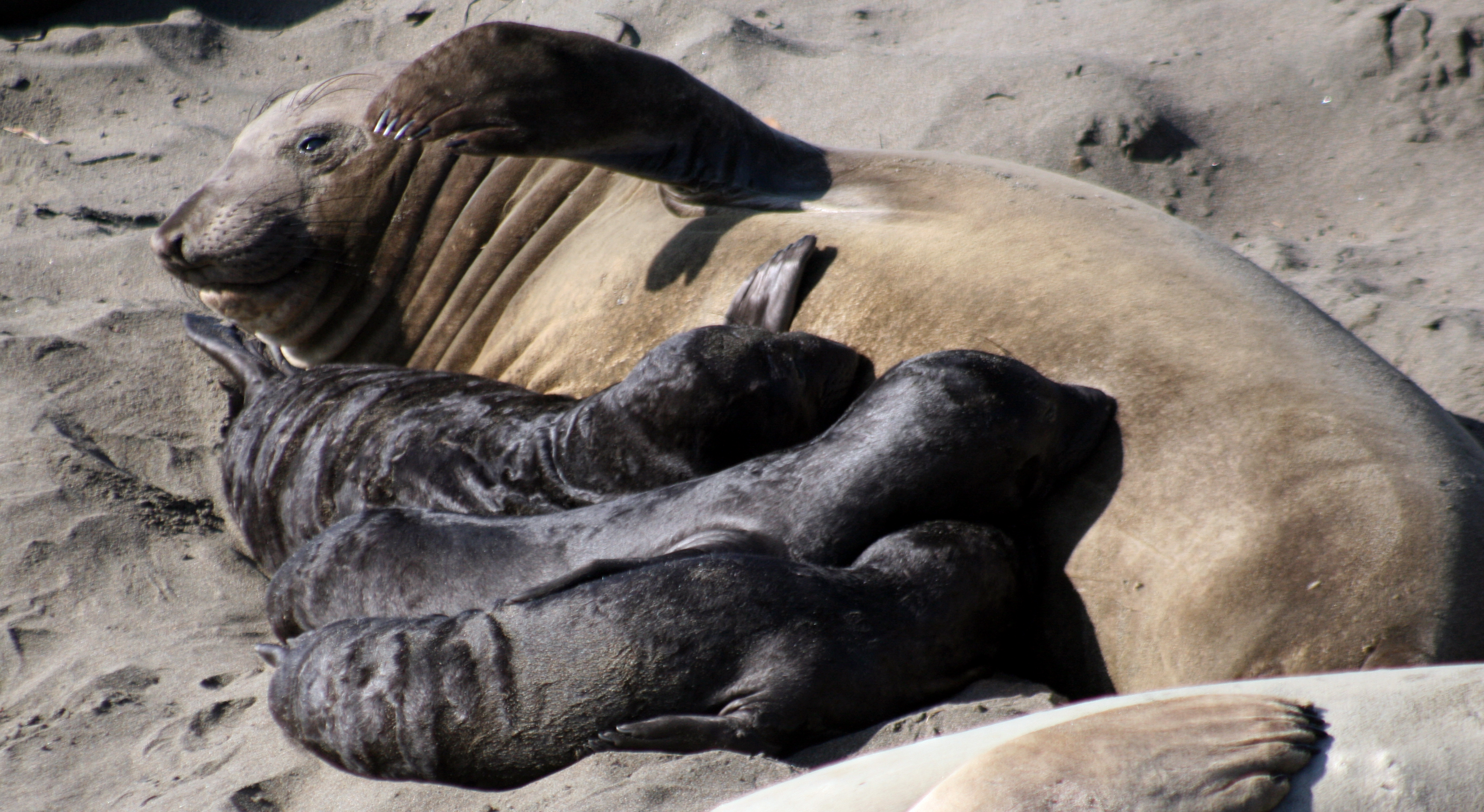 Three Northern Elephant Seals pups are nursing from the single female.Female Northern Elephant Seals delivers only one pup. The two other probably wondered around and got lost. In this situation no pup would get enough milk.